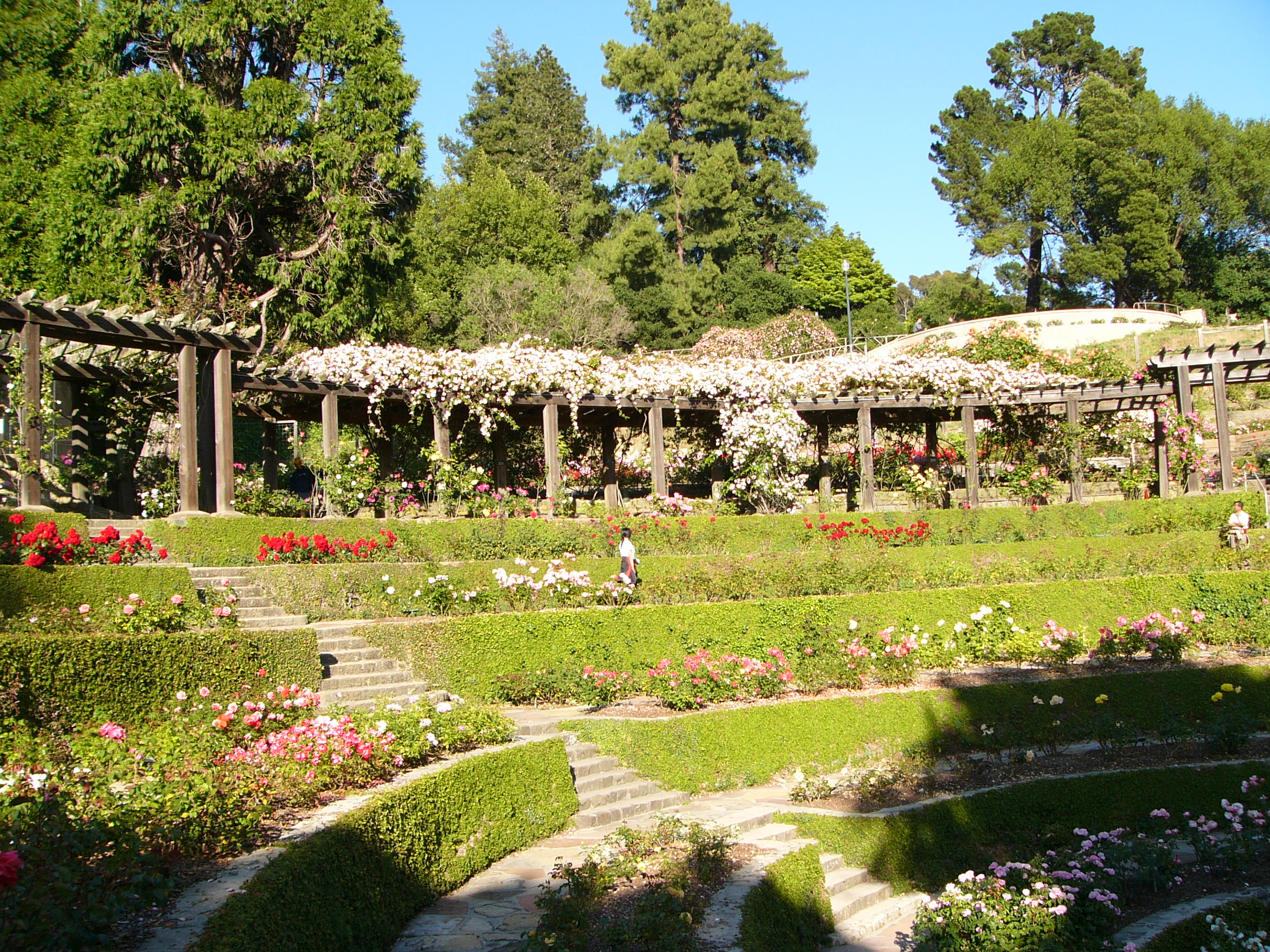 The Berkeley Rose Garden is really popping right now.